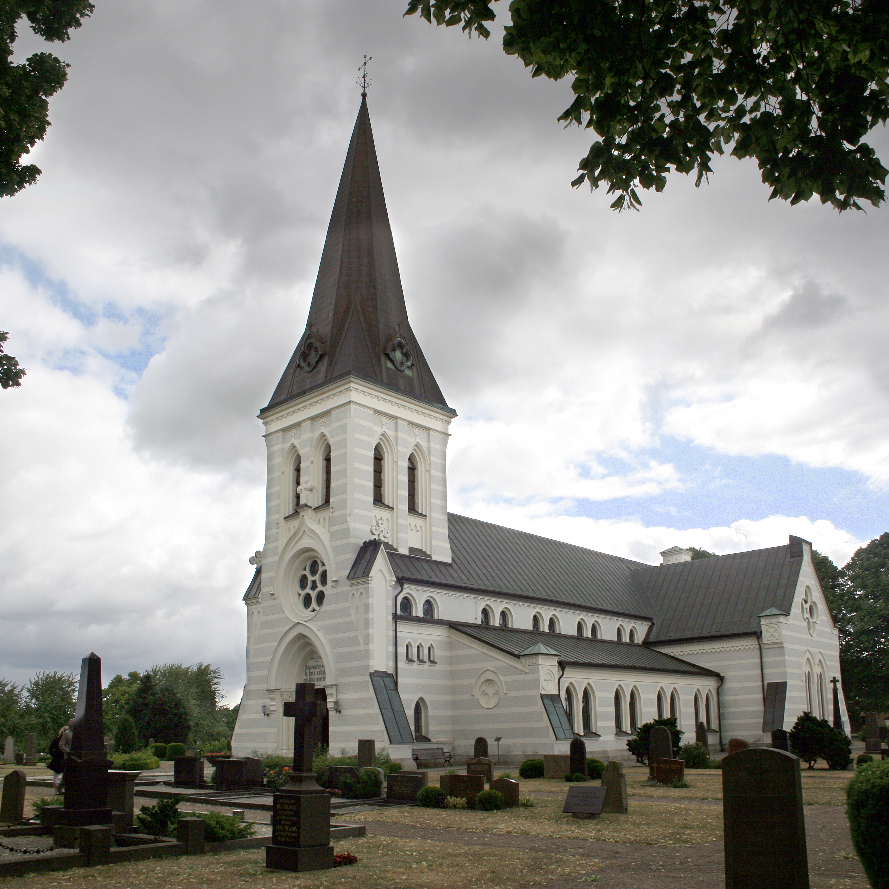 Nosaby Parish Church in Nosaby, Kristianstad, Sweden.